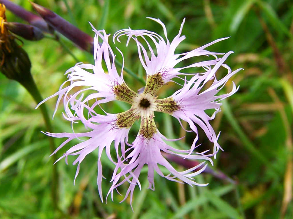 Dianthus speciosus ssp. alpestris (pl. goździk okazały), habitat: Tatra Mountains, Dolina Kondratowa